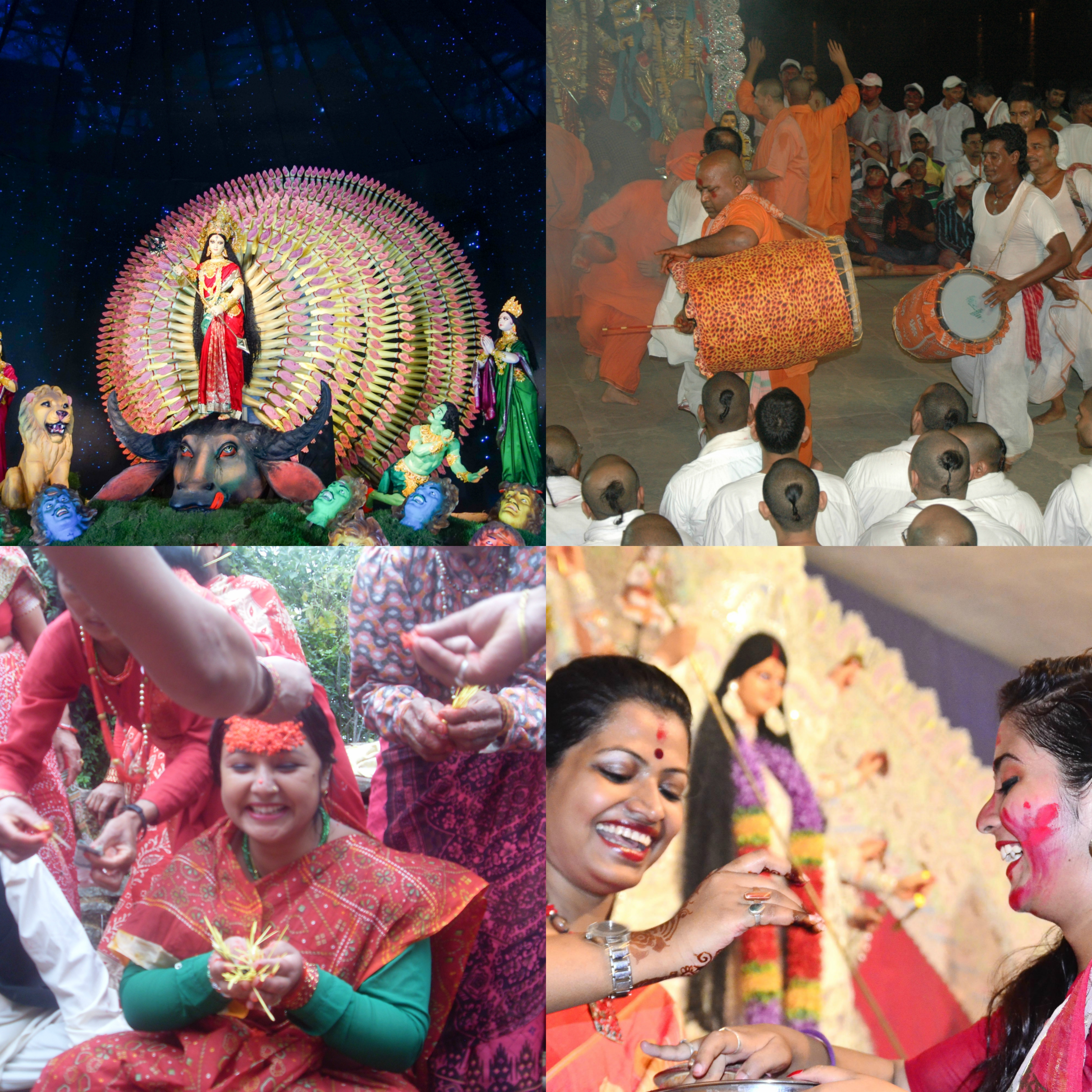 Derivative image of the following four wikimedia commons files: Durga Matha Images - Idols of Goddess Durga, the demon Mahishasur, Goddesses Saraswati and Lakshmi and Lords Ganesha and Kartikeya from a Durga Puja pandal in Kolkata.jpg Bijoya Dashami.jpg Dashain picture.JPG Durga Puja revelry dancing music.jpg